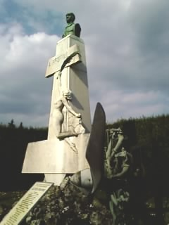 Fronval Alfred Monument Neuville Saint Remy